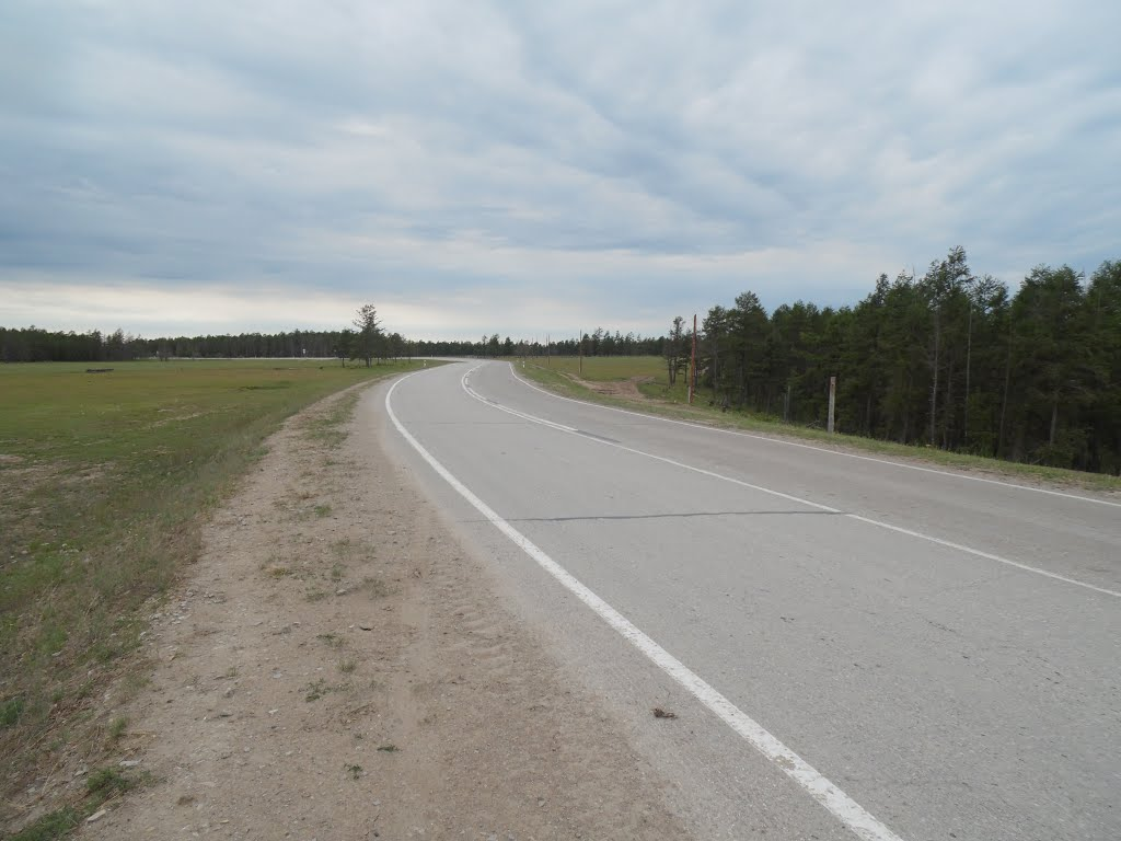 This shows that part of the Kolyma Highway is paved.